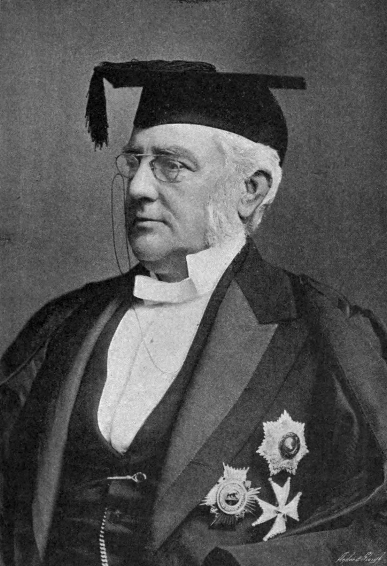 Portrait of Friedrich Max Müller